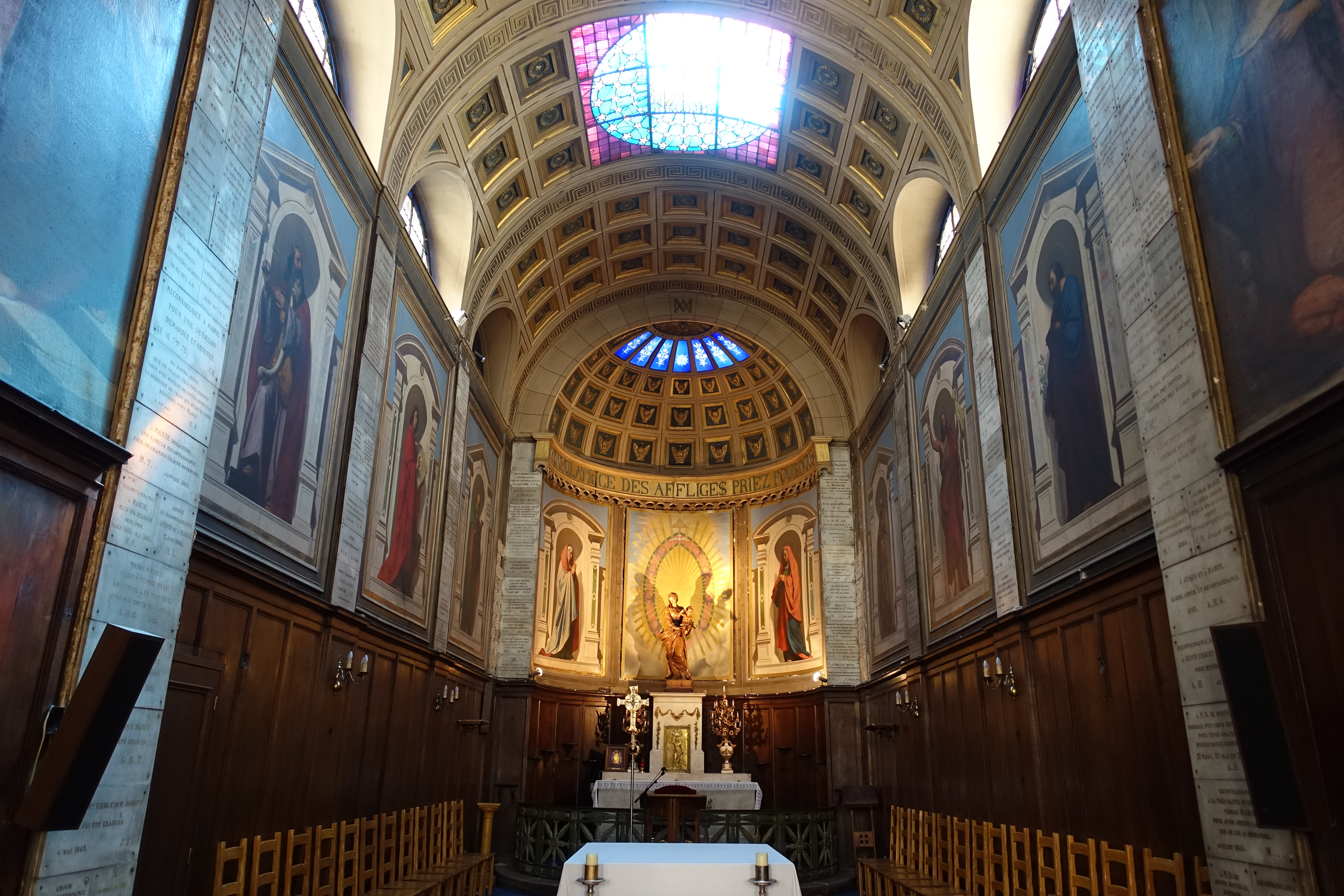 Notre-Dame-de-Bonne-Nouvelle, located at 25 Rue de la Lune, in the 2nd arrondissement of Paris and is a Catholic parish church built between 1823 and 1830. It is dedicated to Notre-Dame de Bonne-Nouvelle, referring to the Annunciation.